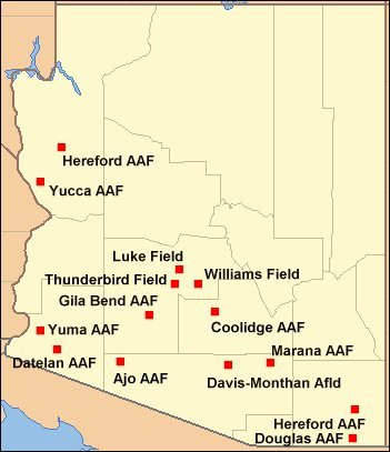 Map of major Army Air Force airfields in Arizona during World War II